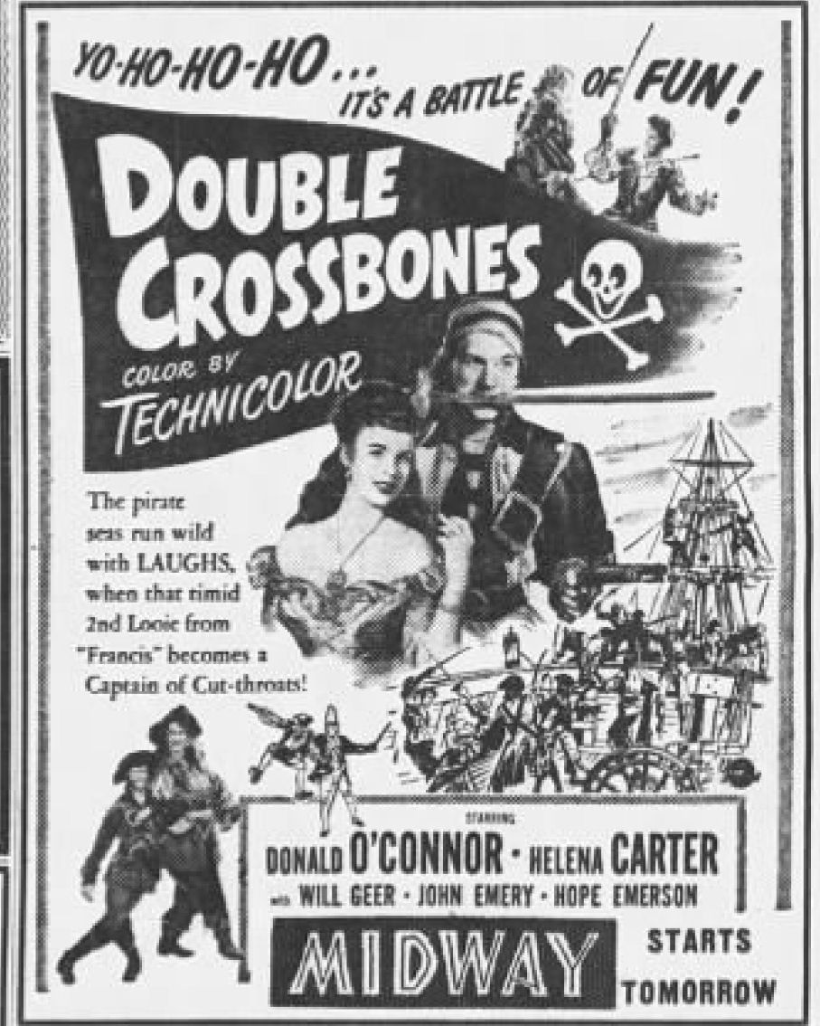 Midway Theater advertisement for the American comedy adventure film Double Crossbones (1951) - 26 Apr. 1951 Morning Call, Allentown PA